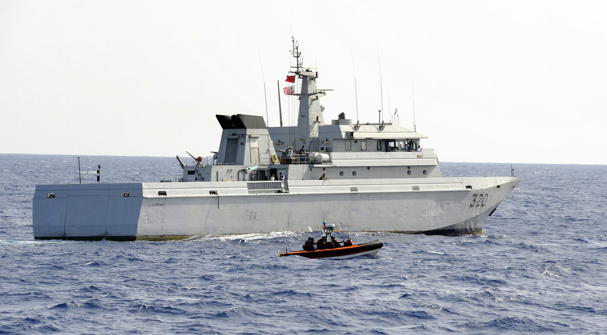 The Moroccan navy vessel Rais Charkaoui (OPV 320), with the U.S. Coast Guard Cutter USCGC Legare’s (WMEC 912) over-the-horizon smallboat alongside, patrols off the coast of Africa July 23, 2009, in the Atlantic Ocean.